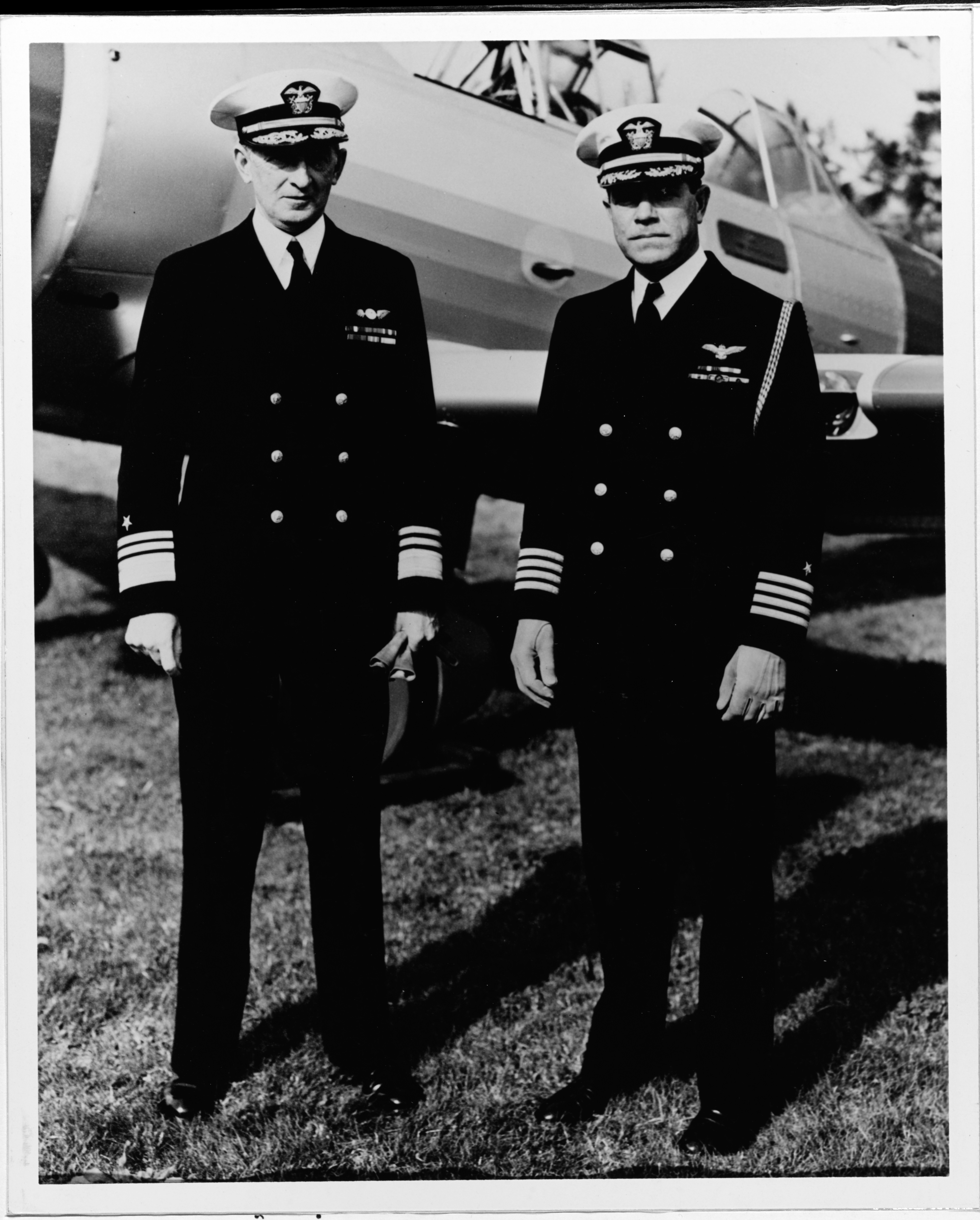 Vice Admiral Frederick J. Horne (left), Commander, Aircraft Battle Force, U.S. Fleet, with his aide and chief of staff, Captain Patrick N. L. Bellinger, circa 1937-38. Plane behind them appears to be a North American NJ-1.